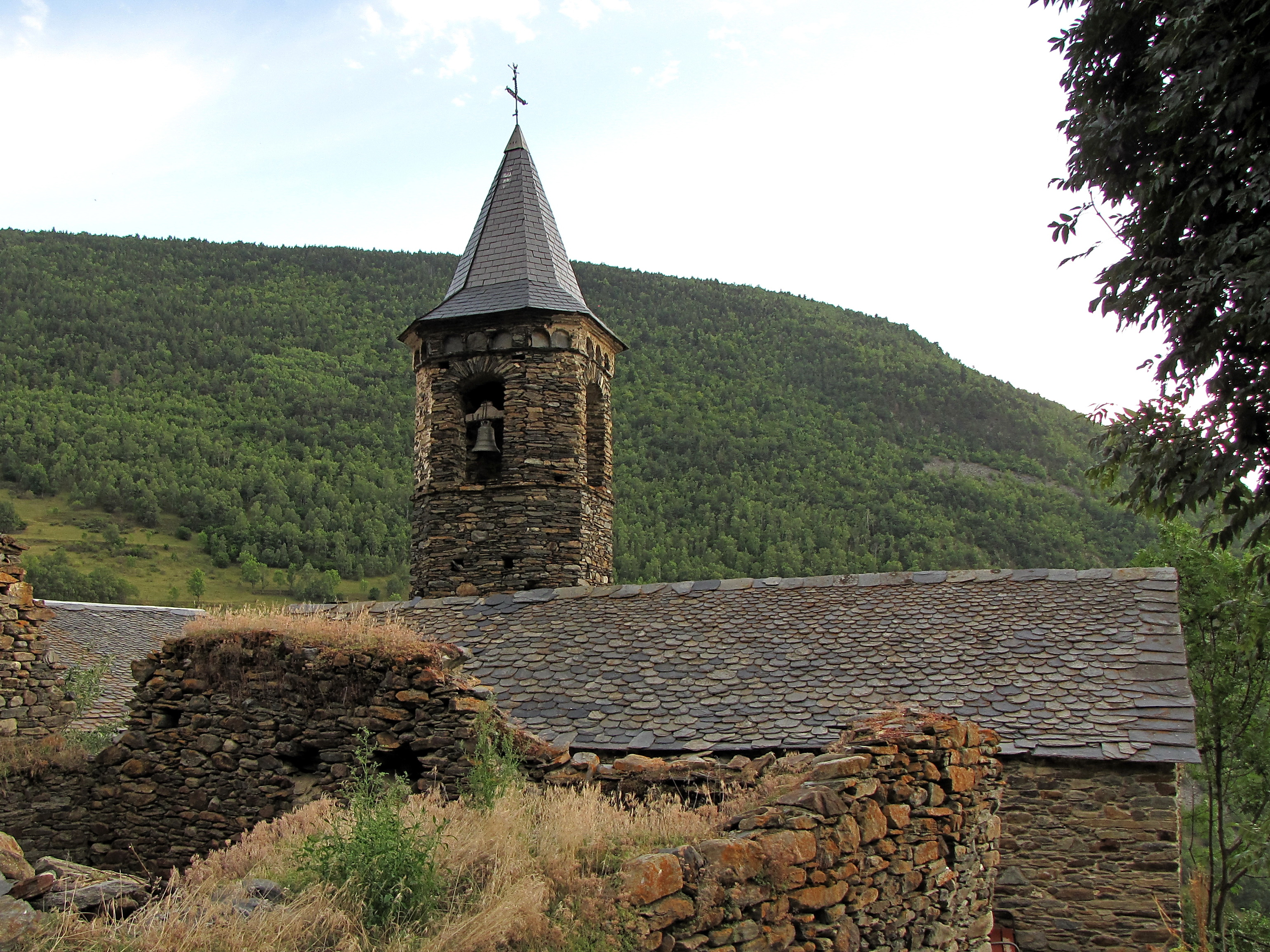 St. Pere church in Boldís Jussà